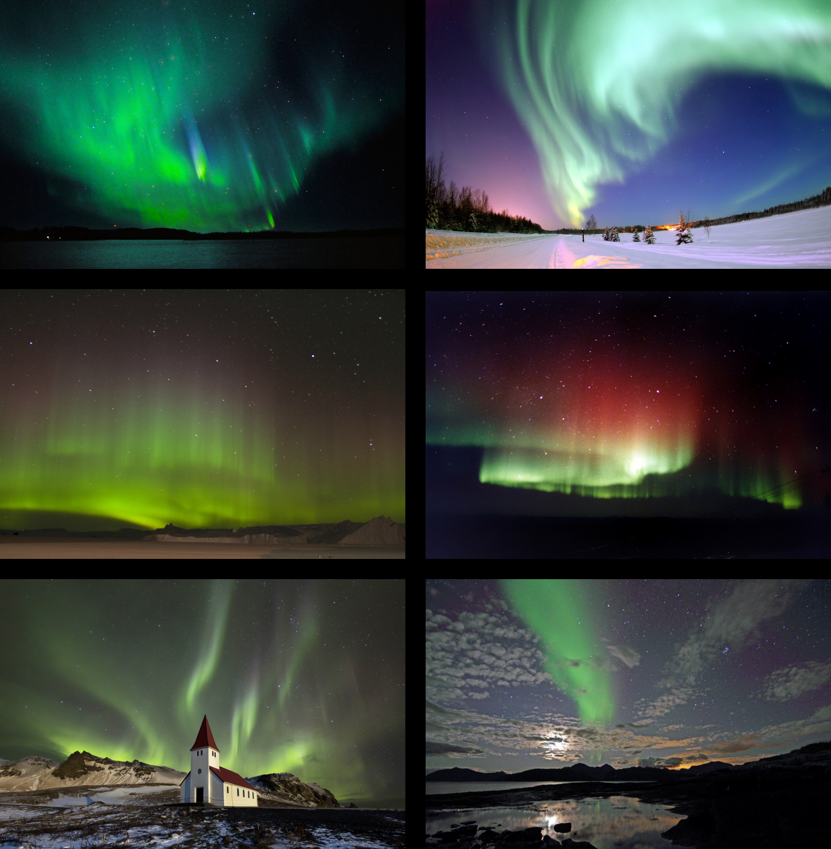 Poster of aurora borealis images. It was assembled by me. Original images listed below: Sources , by Mila Zinkova, cc-by-sa , by Samuel Blanc, cc-by-sa photo by Senior Airman Joshua Strang , by user Varjisakka Northern light 01.jpg , by Jerry Magnum Porsbjer